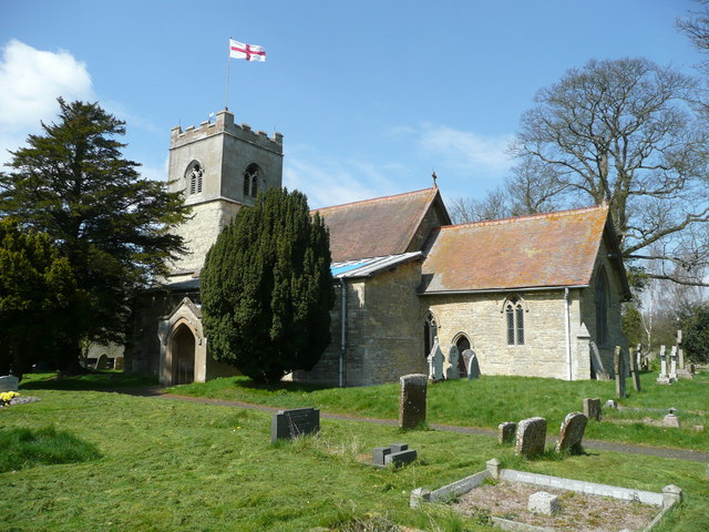 St Nicholas' parish church, Little Horwood, Buckinghamshire, seen from the southeast